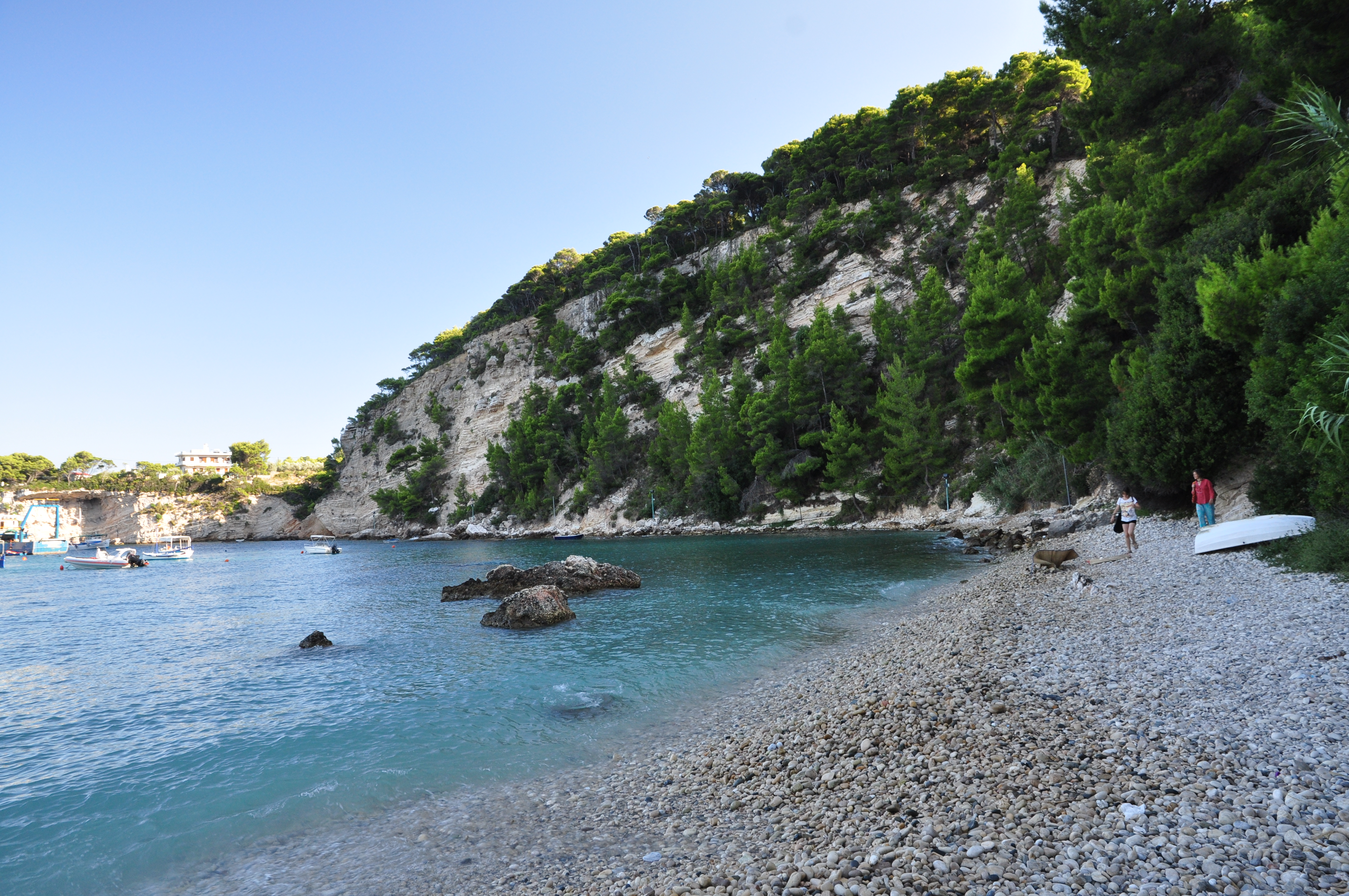 (in title)